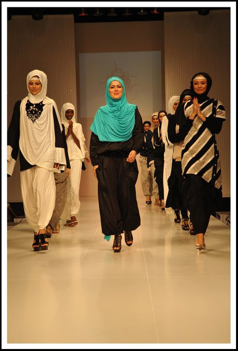 Islamic fashion